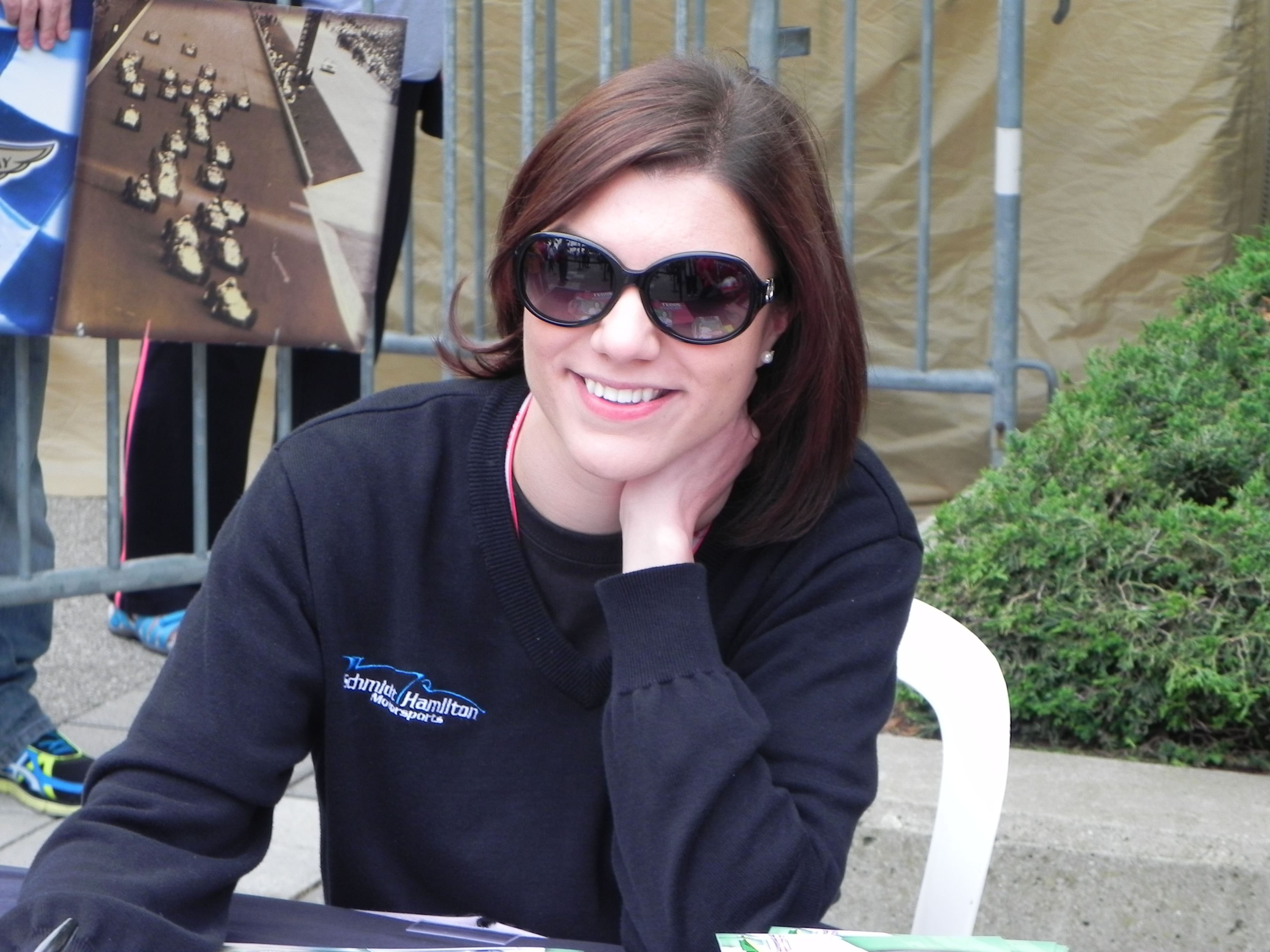 Katherine Legge at the 2013 Indianapolis 500